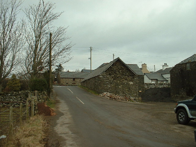 Glasfryn Village. Road junction on the A5 in the middle of the photo.